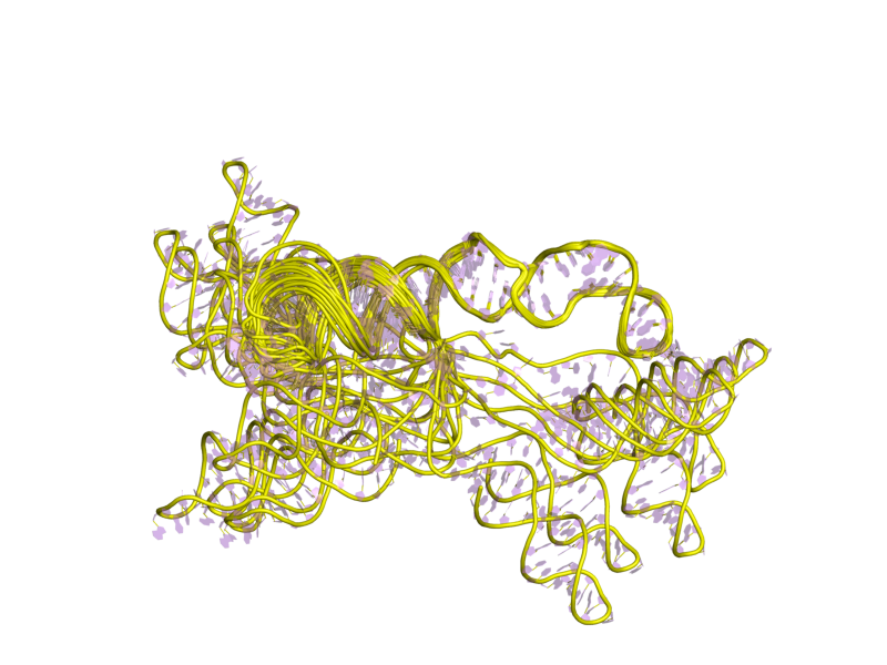 Cartoon representation of the molecular structure of protein registered with 1s9s code.